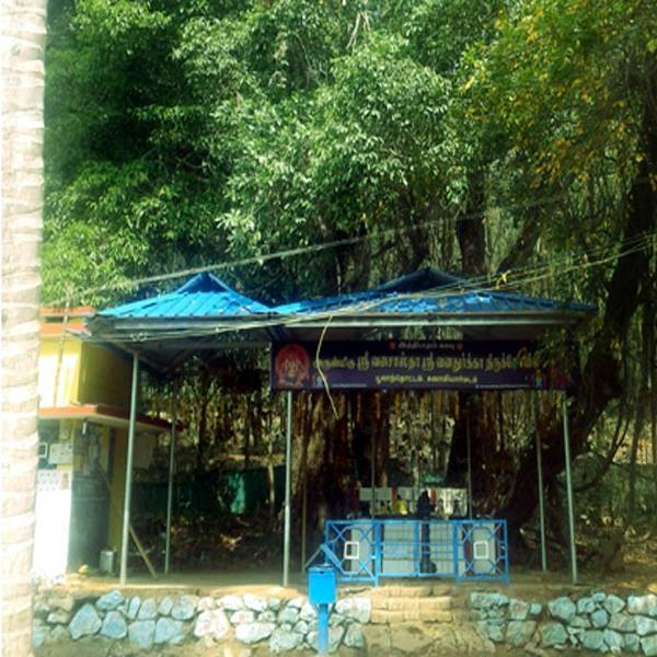 front view of ithiyapuram kaavu